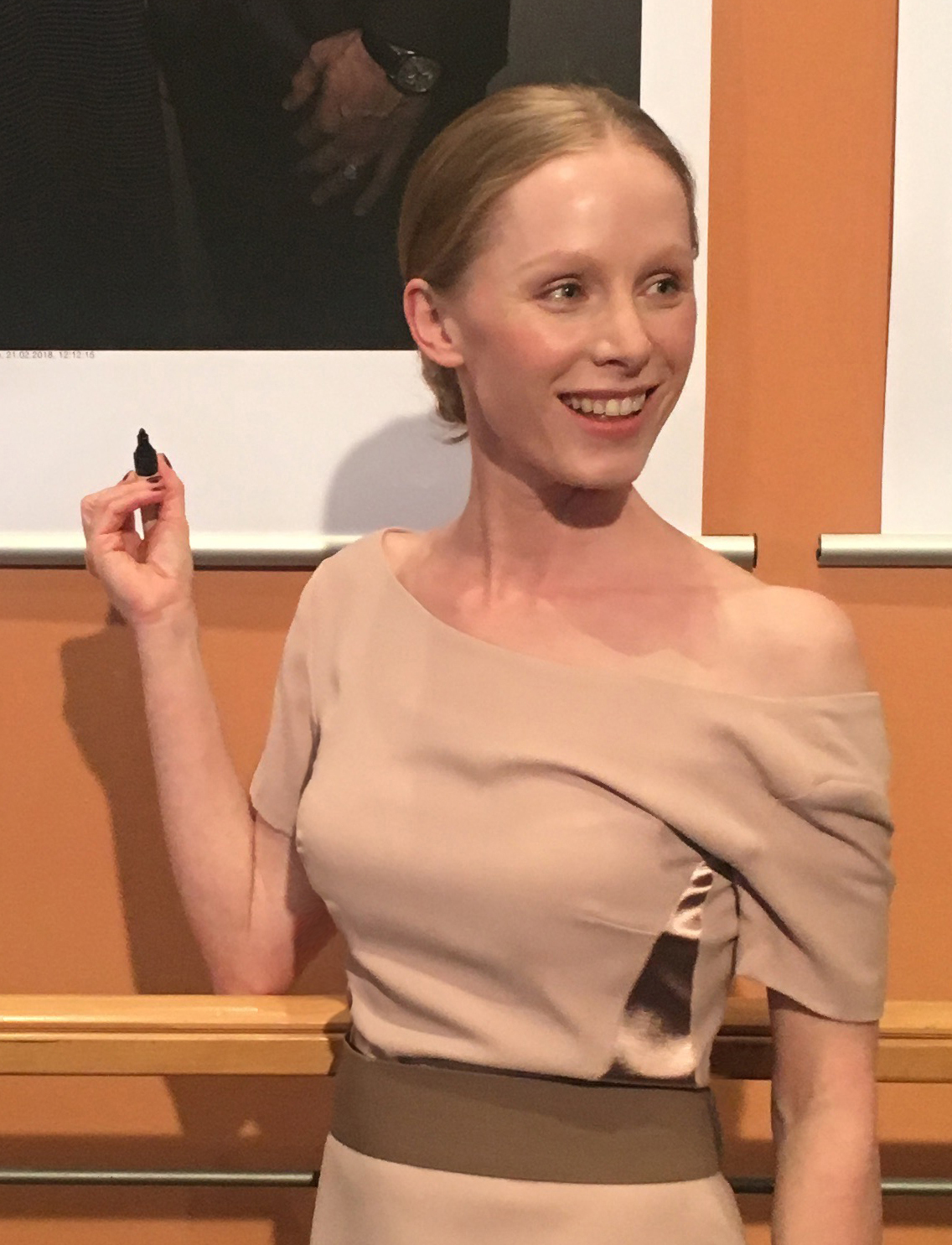 Susanne Wuest at the premiere of "My Brother's name is Robert and he's an Idiot", Berlinale 2018